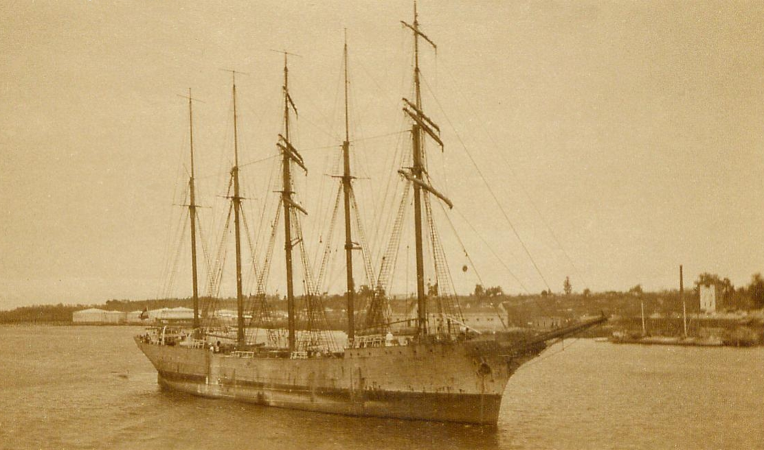 5-masted schooner Carl Vinnen on the Rio de la Plata at anchor - 1930-31